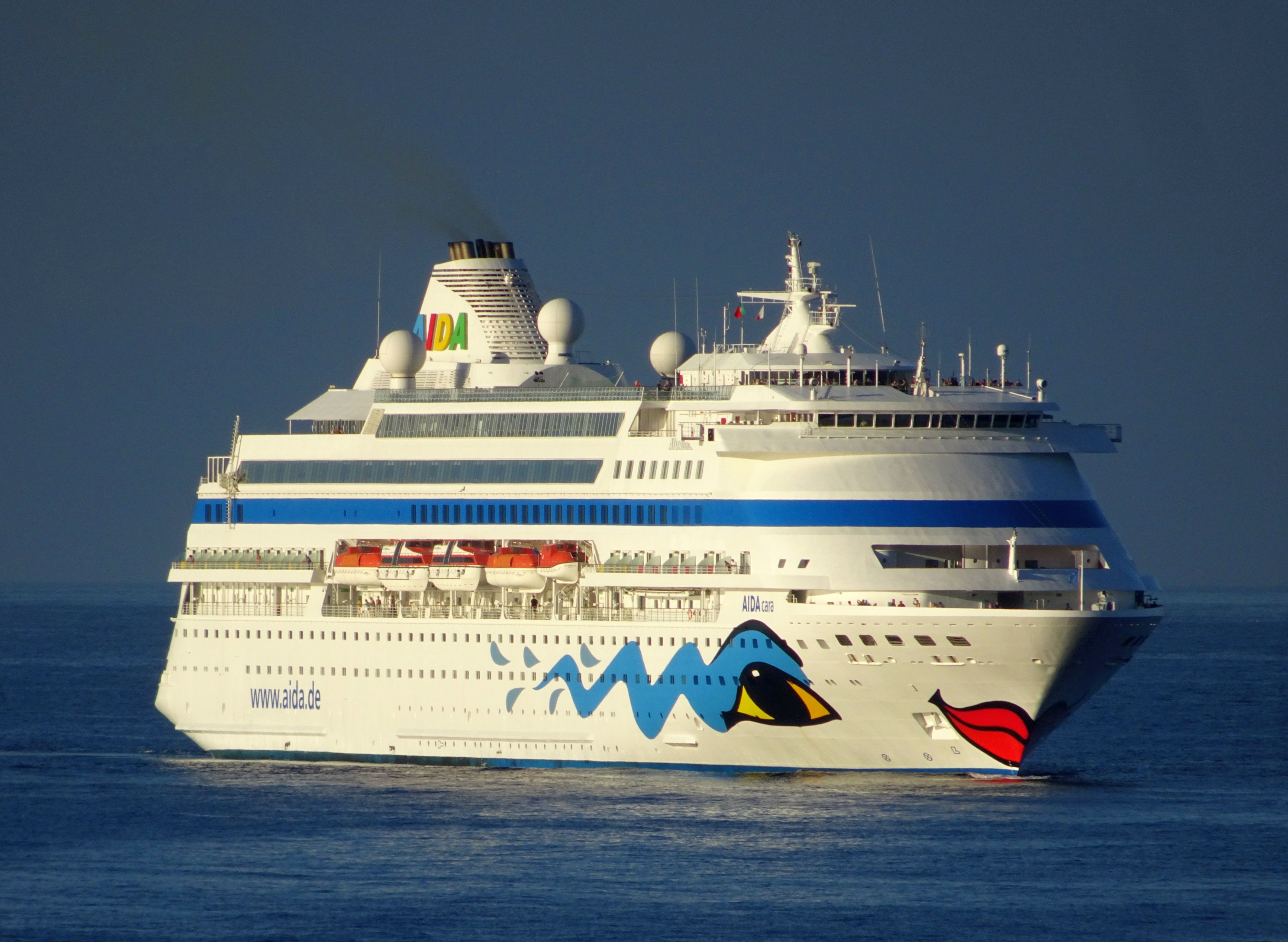 AIDAcara reaching Funchal, Madeira on July 4th 2016